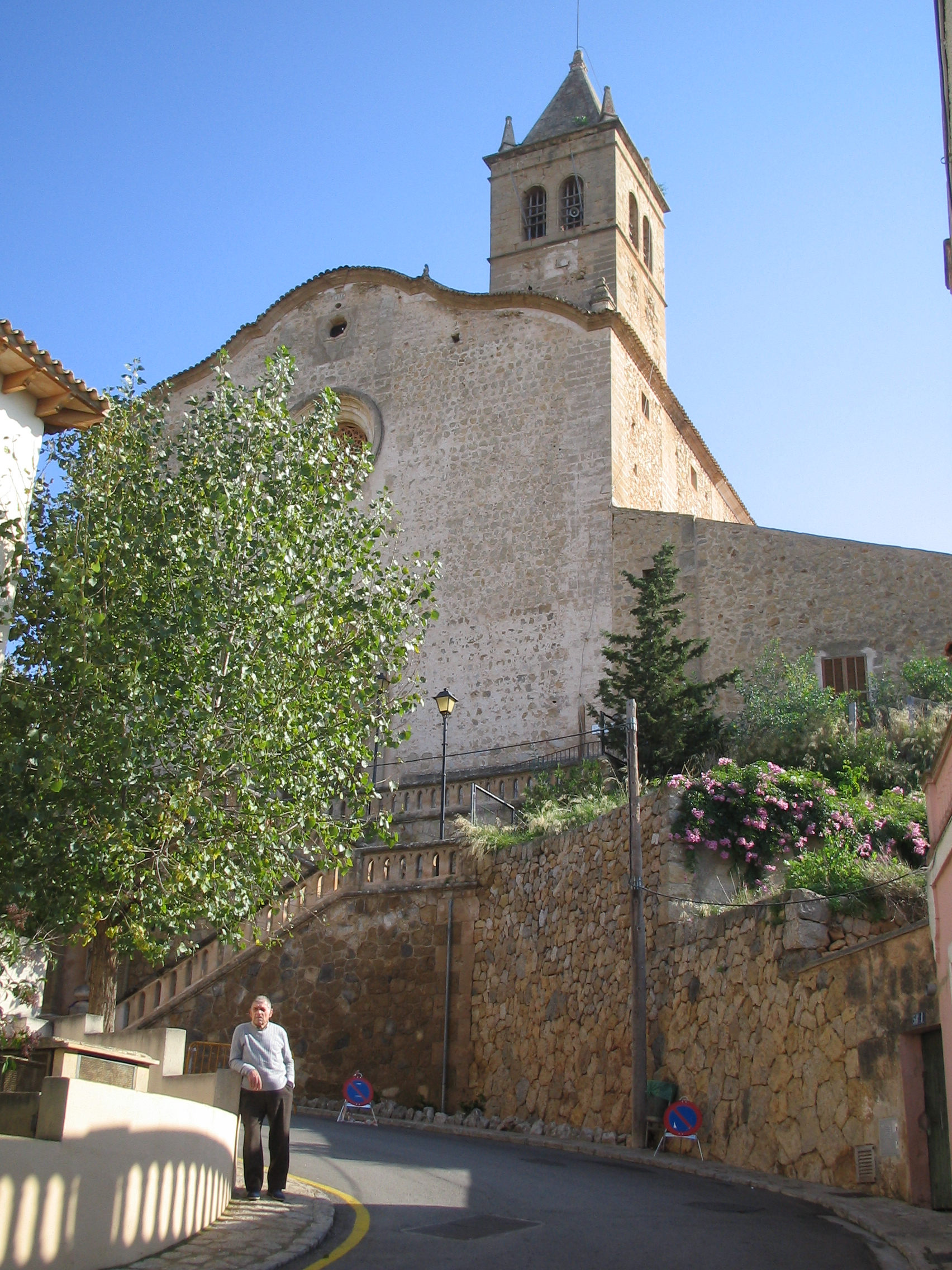 Parish of the spanish village Andratx in Palma de Mallorca, Spain.